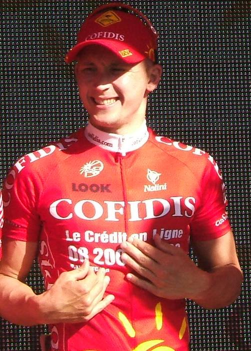 Named cyclist at the en:2009 Tour Down Under team presentation